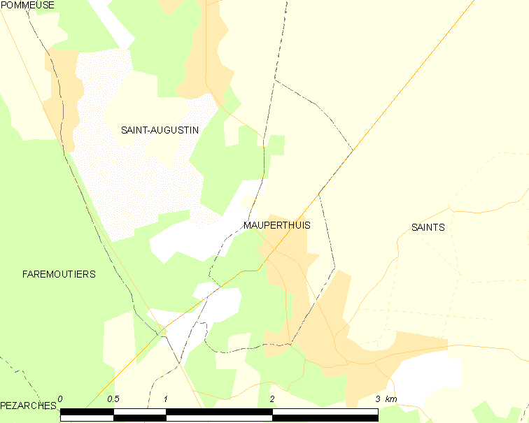 Map of French municipality Mauperthuis